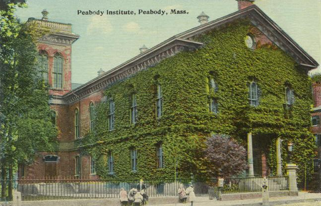 Peabody Institute, Peabody, MA; from a c. 1912 postcard. Now the Peabody Institute Library, it was built in 1854 with an endowment from George Peabody.